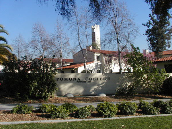 Sign for Pomona College on Walker Wall, with Walker Hall in background